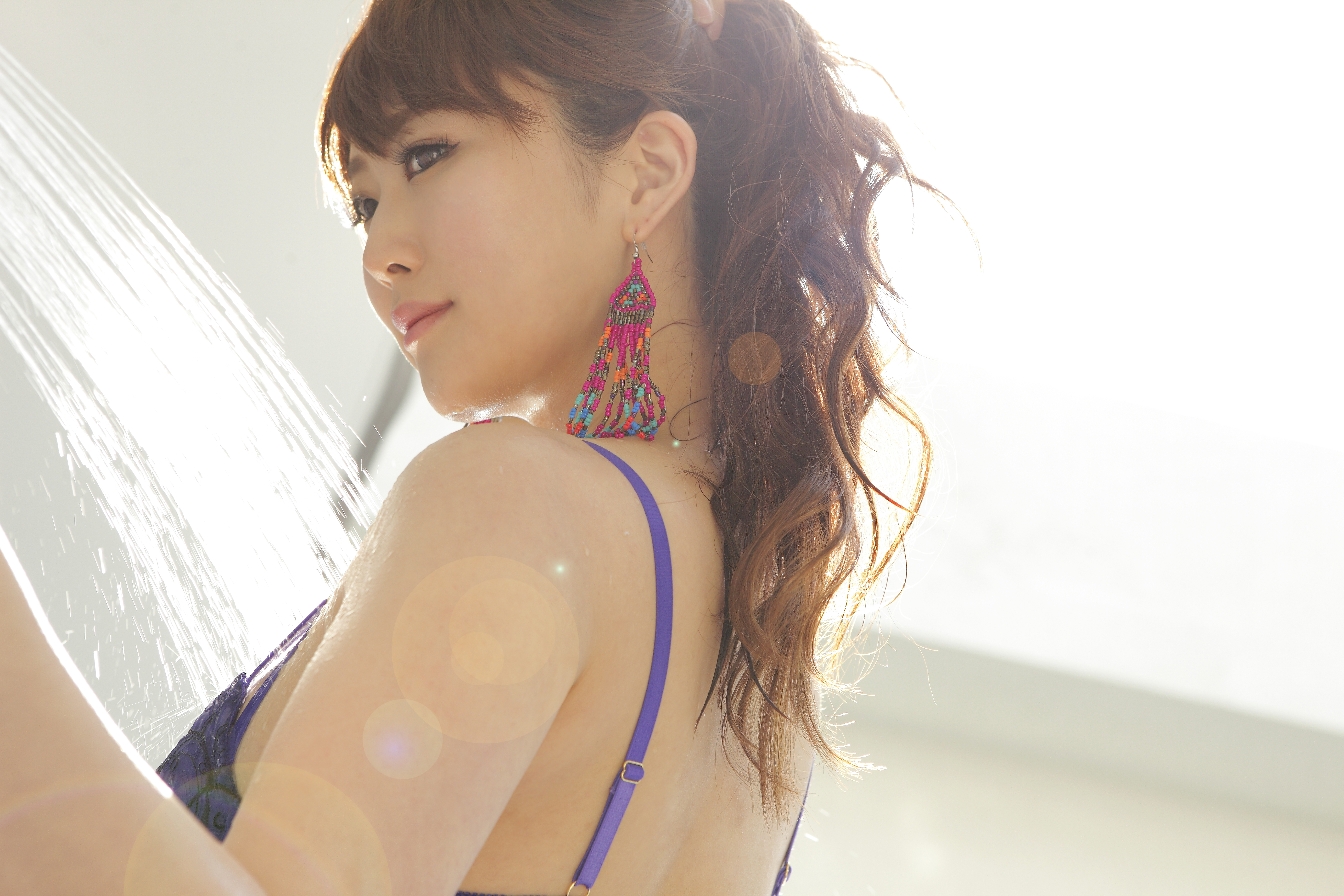 Matsuura Marina (born on August 31, 1987 in Miyazaki prefecture) is a gravure idol and model in Japan. Height 170 cm, three sizes are B83, W58, H87.